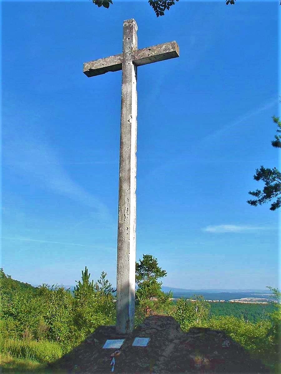 The Trianon-Cross (Monument of the Treaty of Trianon 1920) Kőszeg, Hungary